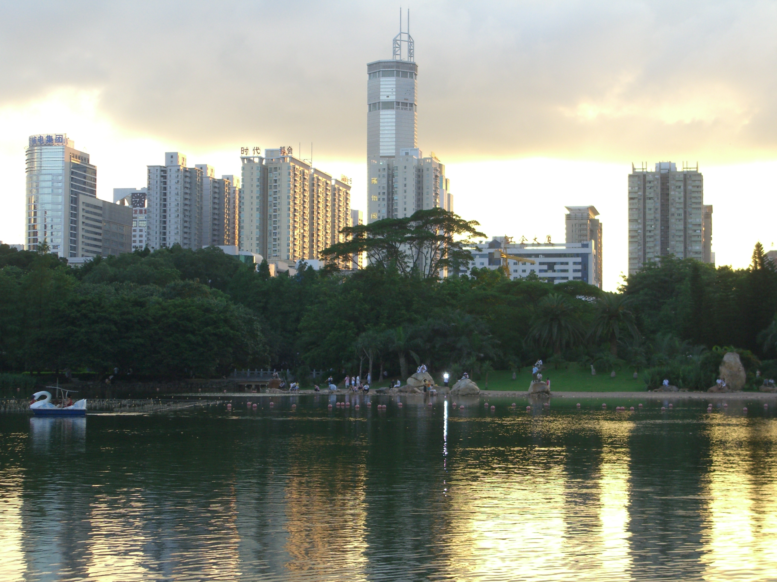 View of Hua Qiang Bei road (Futian District) in Shenzhen, China. Taken from inside Lychee park facing west at sunset. The tallest building in the frame is the SEG building. The picture was taken by EDWARD RIVENS summer of 2005.